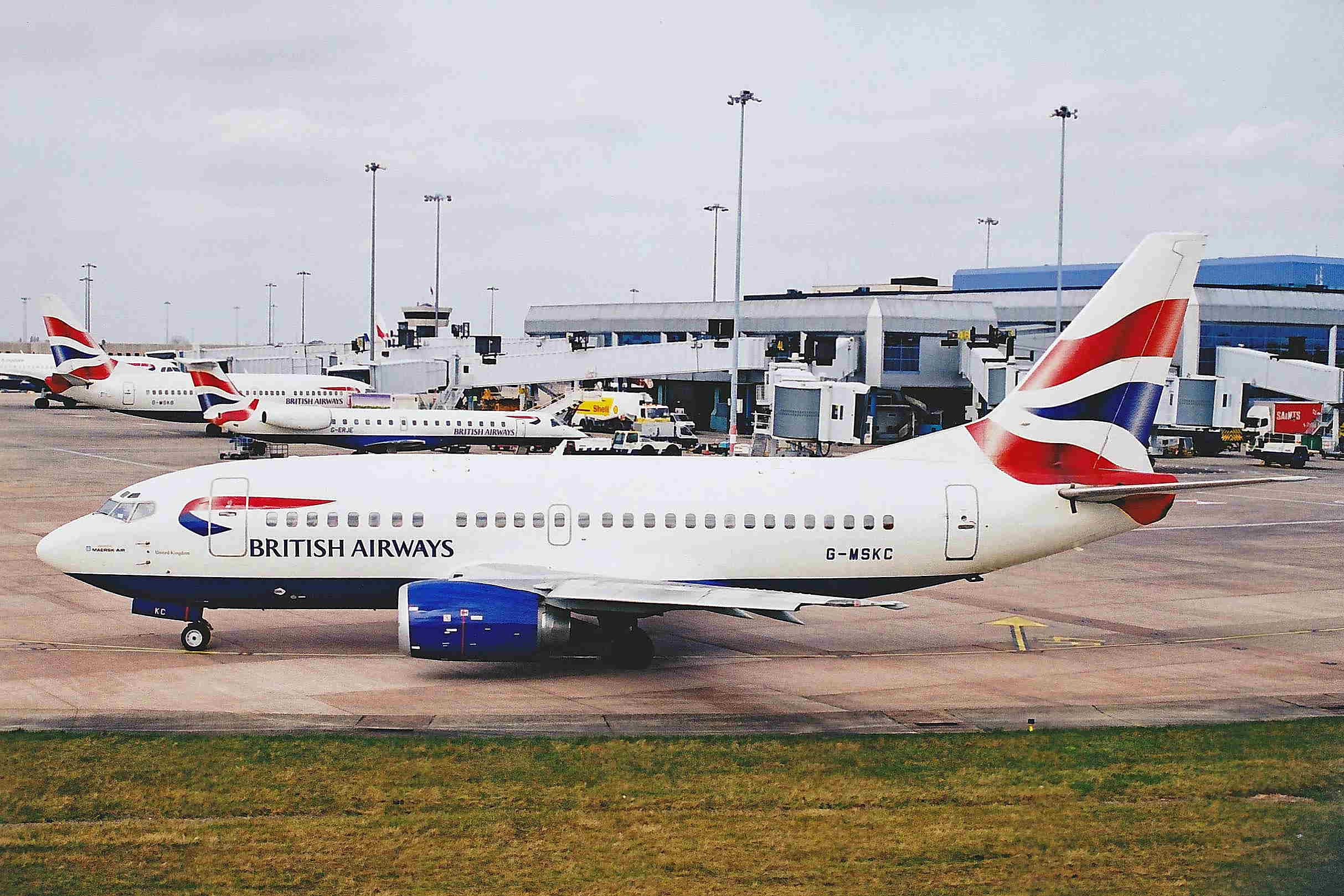 Operated for British Airways by franchise partner Maersk Air UK.